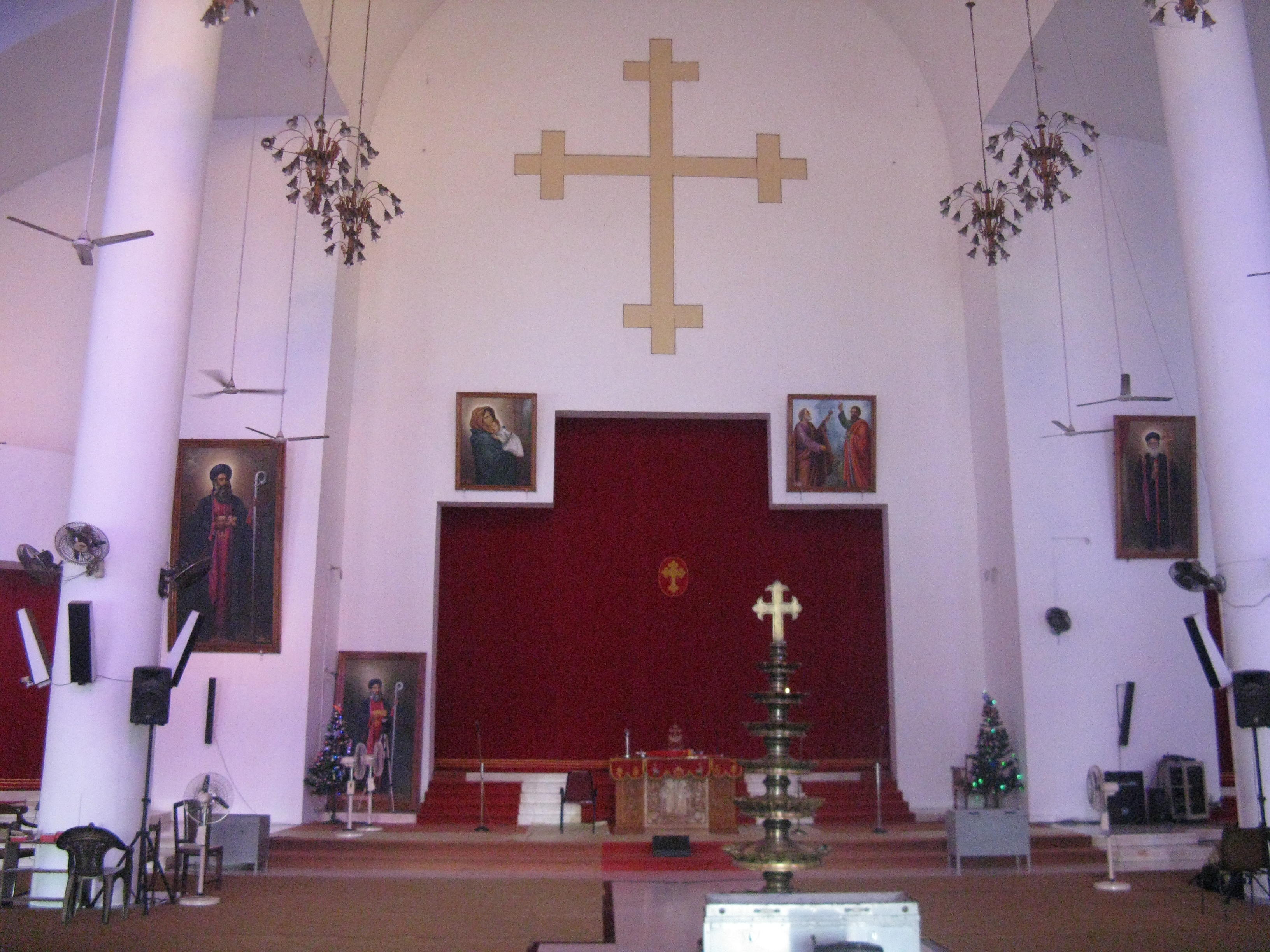 Inside view of Parumala Church (St.Peters and St.Pauls Orthodox Church, Parumala, Kerala )